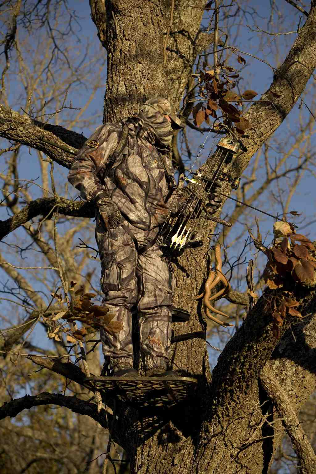 Tree Stand